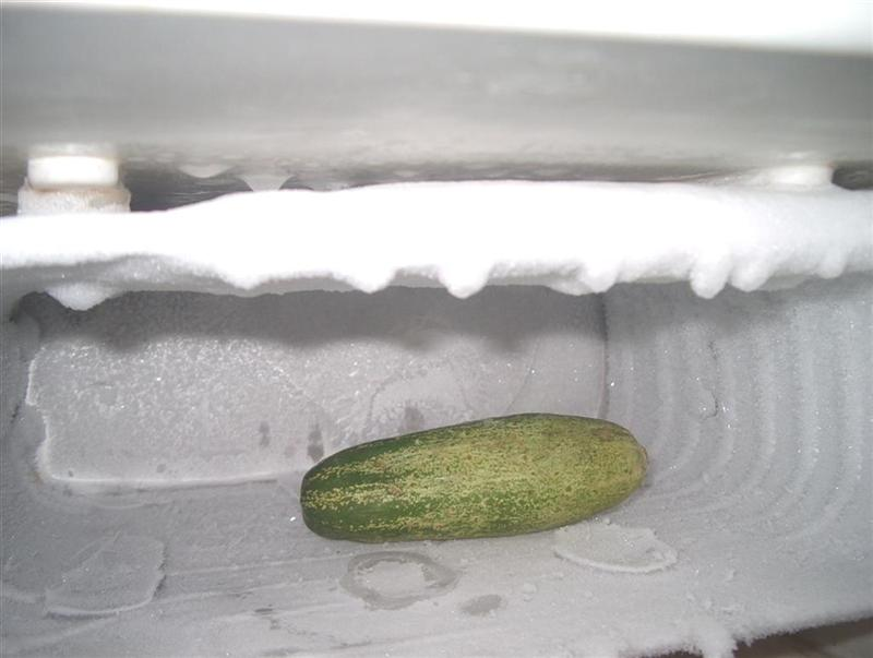 A cucumber in the freezer, thatz what I call a cool cucumber!